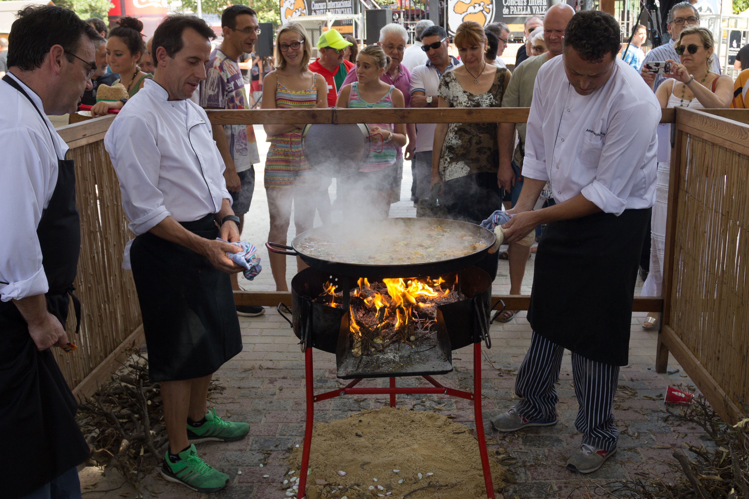 56th International Paella Contest of Sueca, 2016.